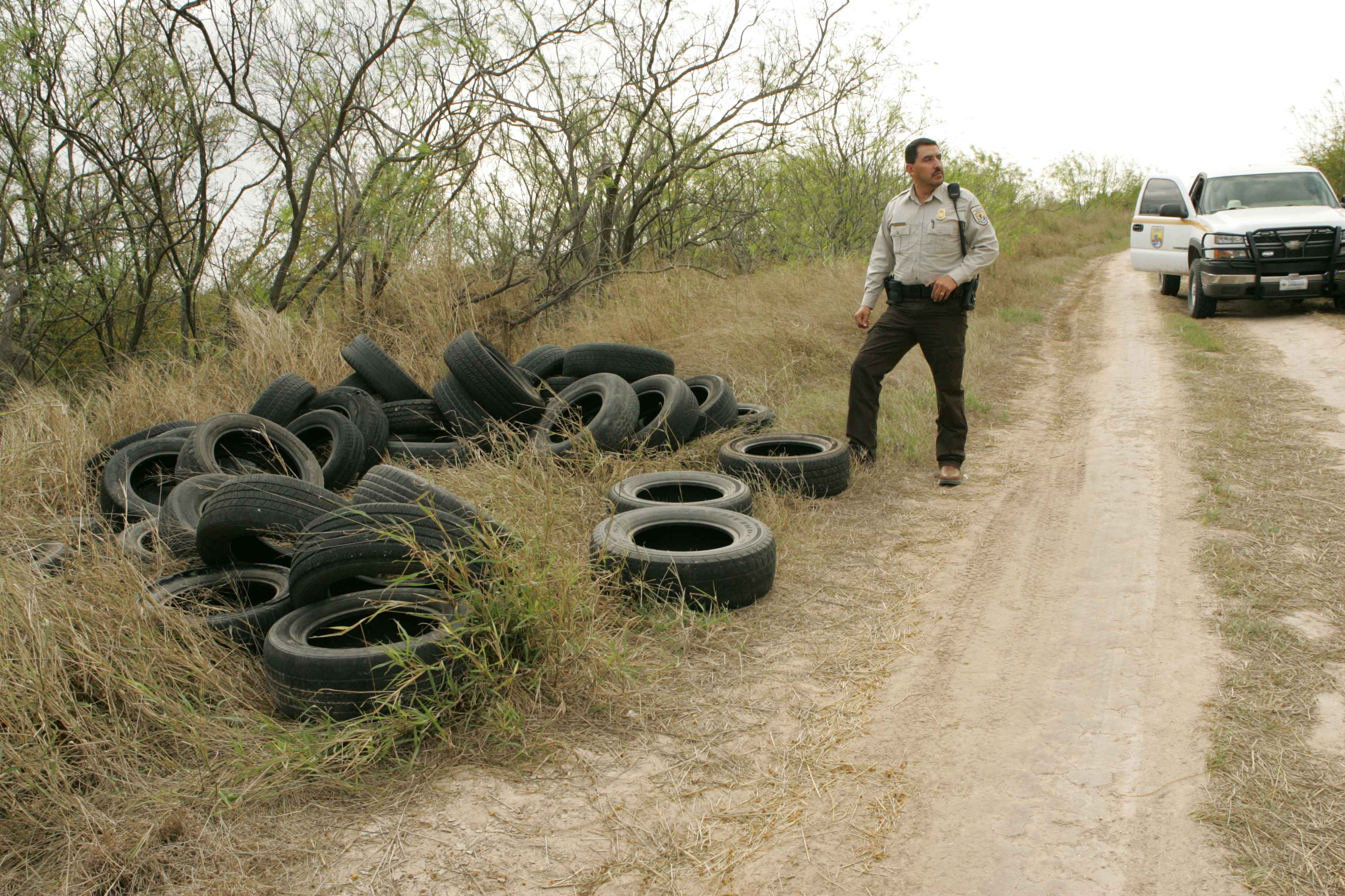 Image title: Law enforcement officer inspects tires that were illegally dumped Image from Public domain images website